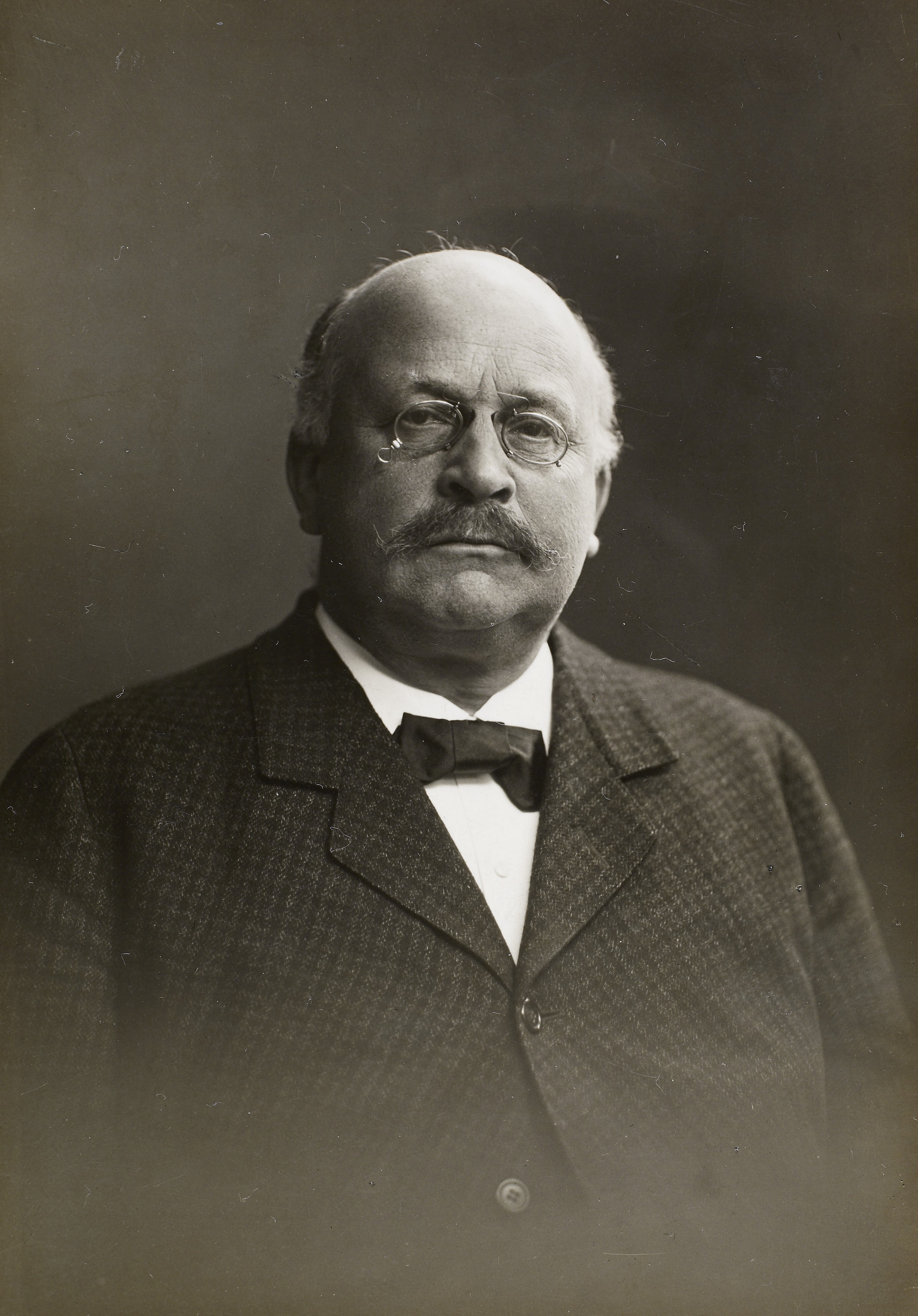 Peter Adler Alberti (1851-1932), Danish politician, Minister of Justice and Minister for Iceland, MP